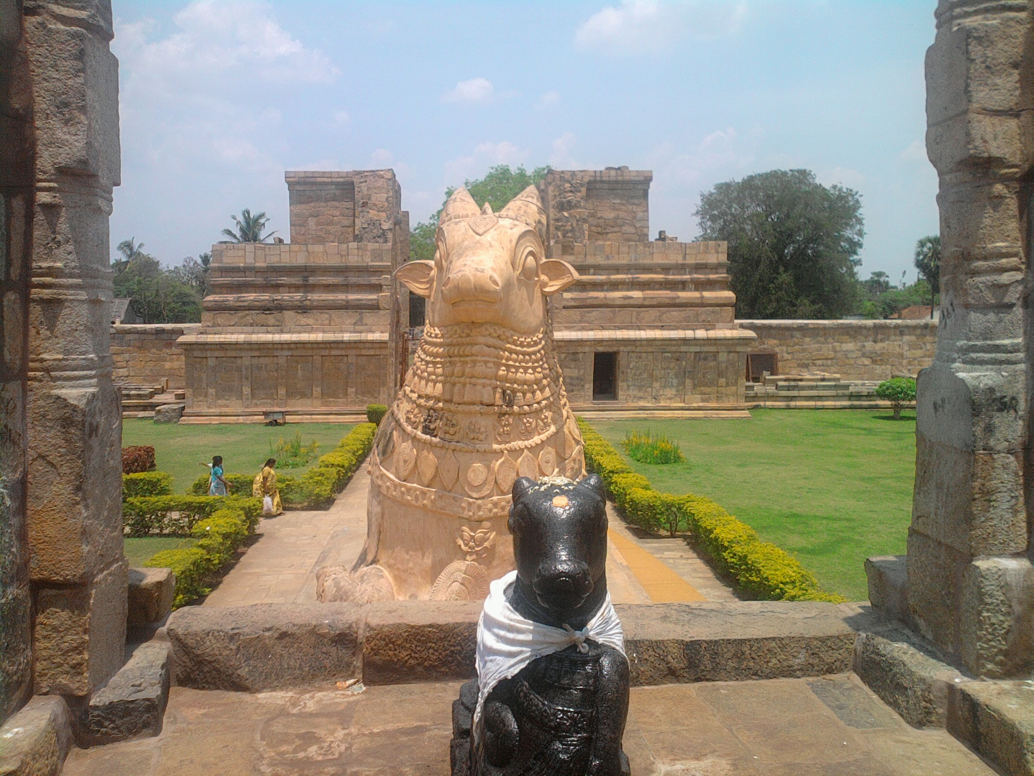 Statue of Nandi statue infront of Gangaikonda Cholapuram